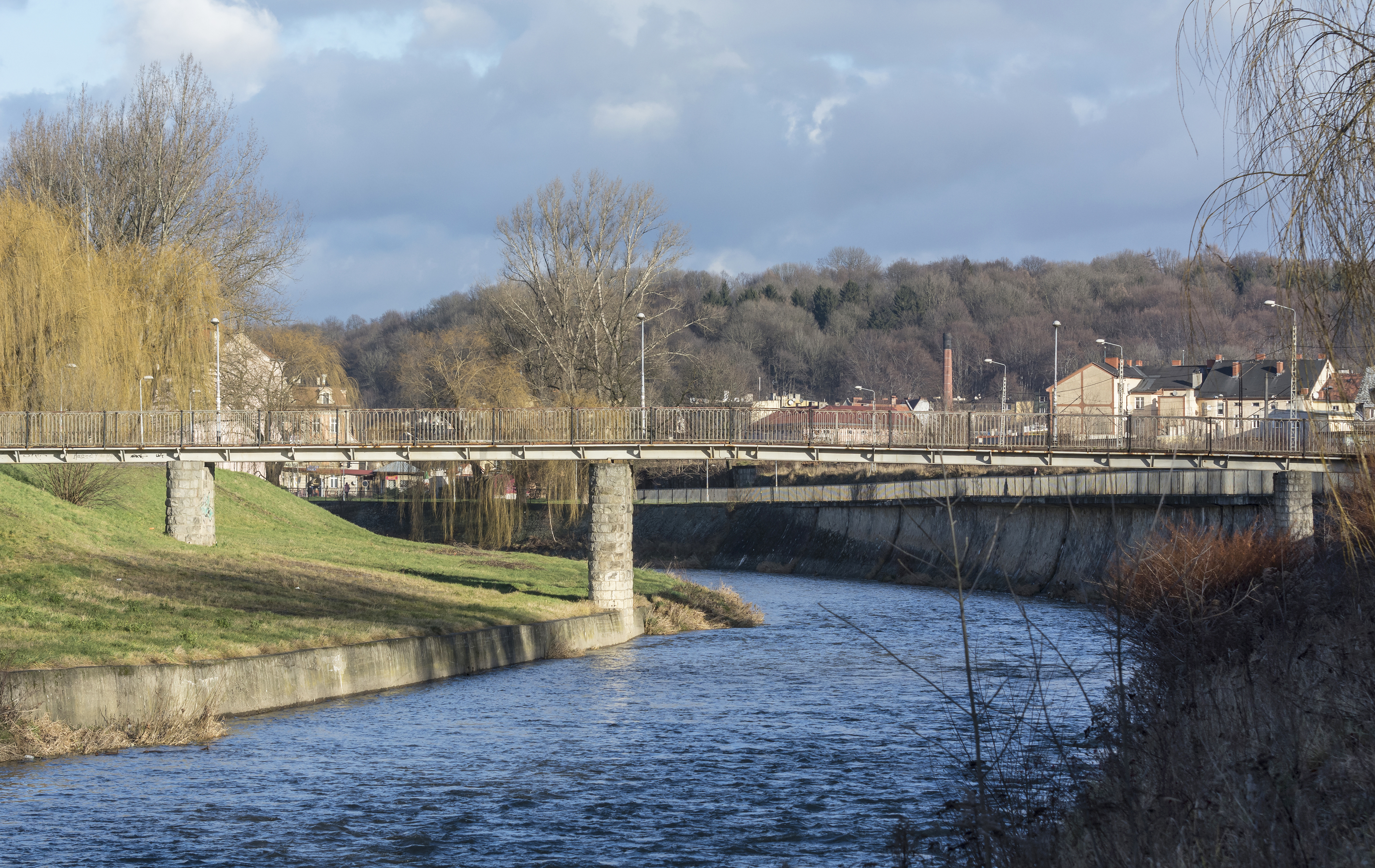 Brigde at Malczewskiego Street in Kłodzko